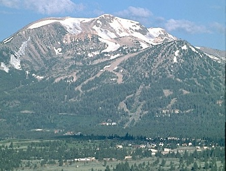 United States Geological Survey photo of Mammoth Lakes, California and Mammoth Mountain.